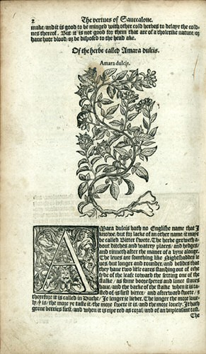 Illustration from William Turner's Herbal - 'Amara dulcis'